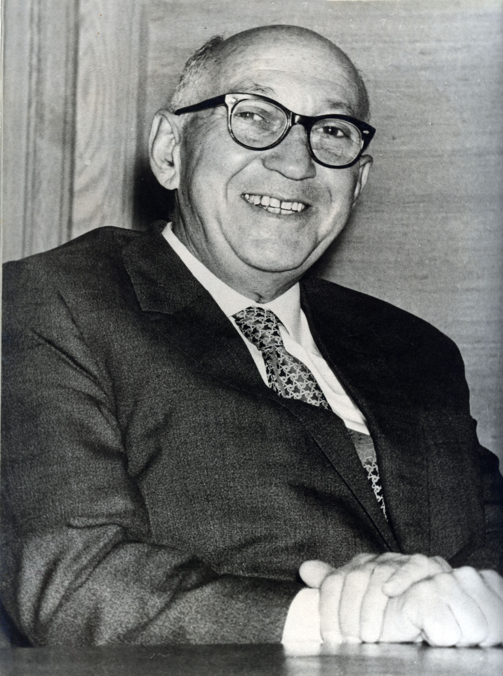 Dr Raphael Gjebin the first director of Rambam Hospital